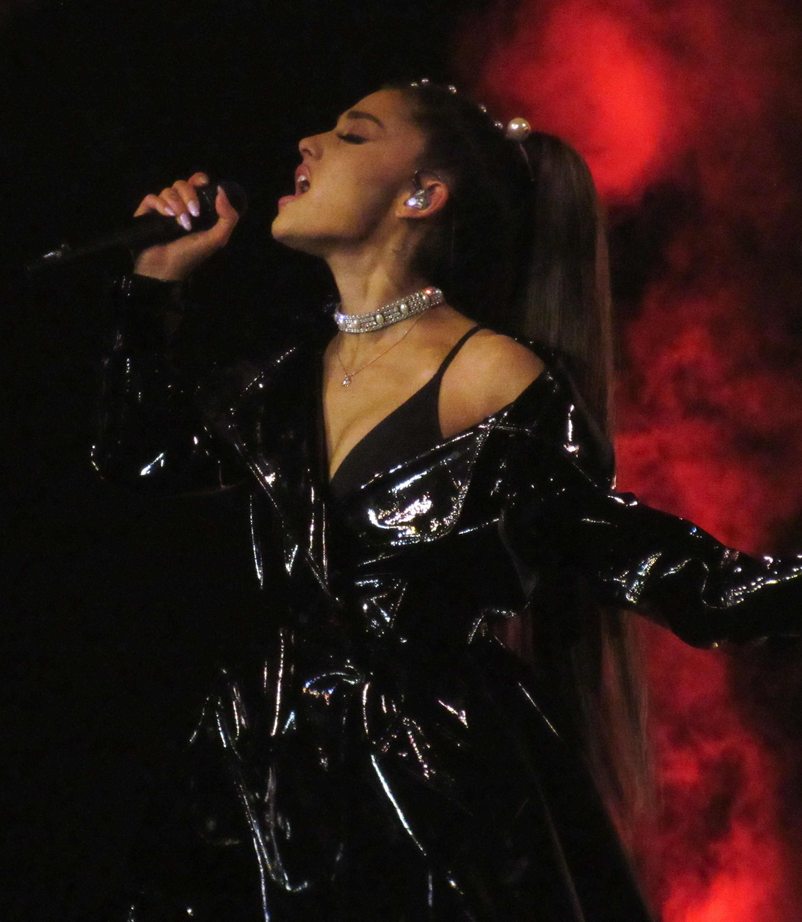 Ariana Grande performing during Dangerous Woman Tour in Manchester on February 19, 2017.